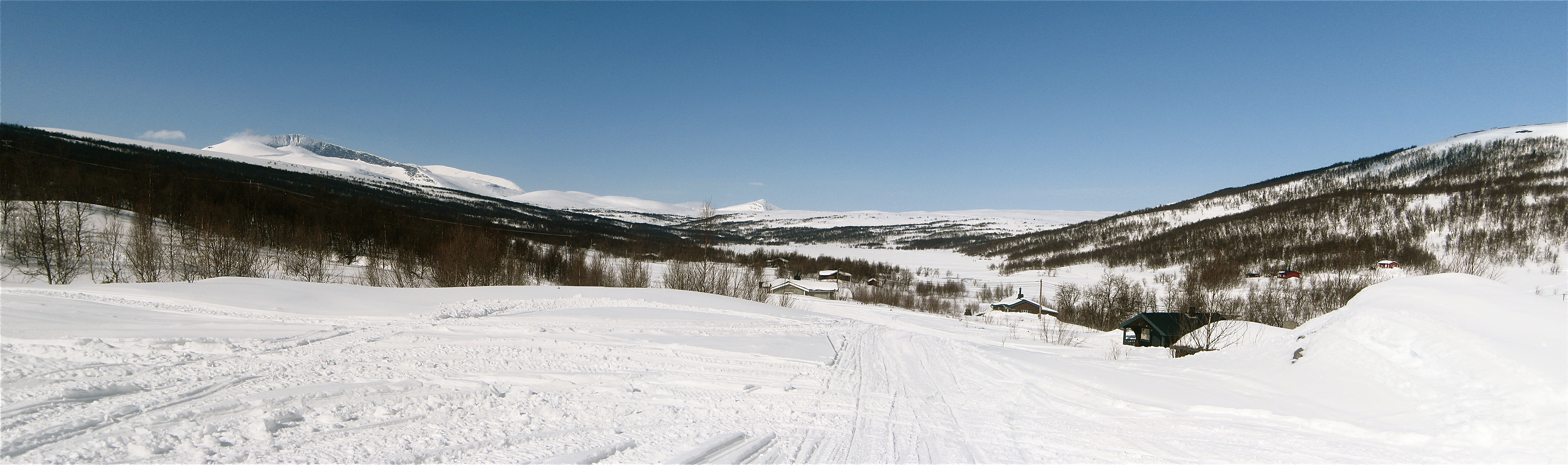 Kesusjön in april 2010.